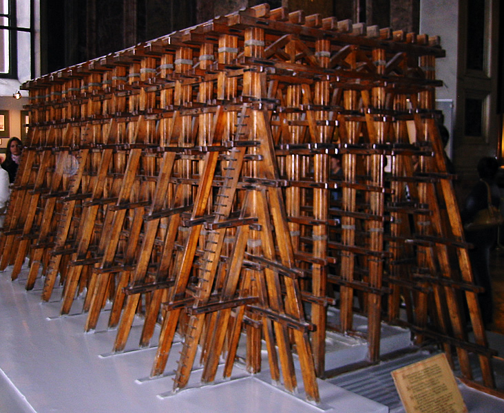 This is a photograph of a scale model of the wooden framework used to raise the columns of St. Isaac's Cathedral. This model is on display inside the cathedral itself. I took this picture on July 30, 2004.